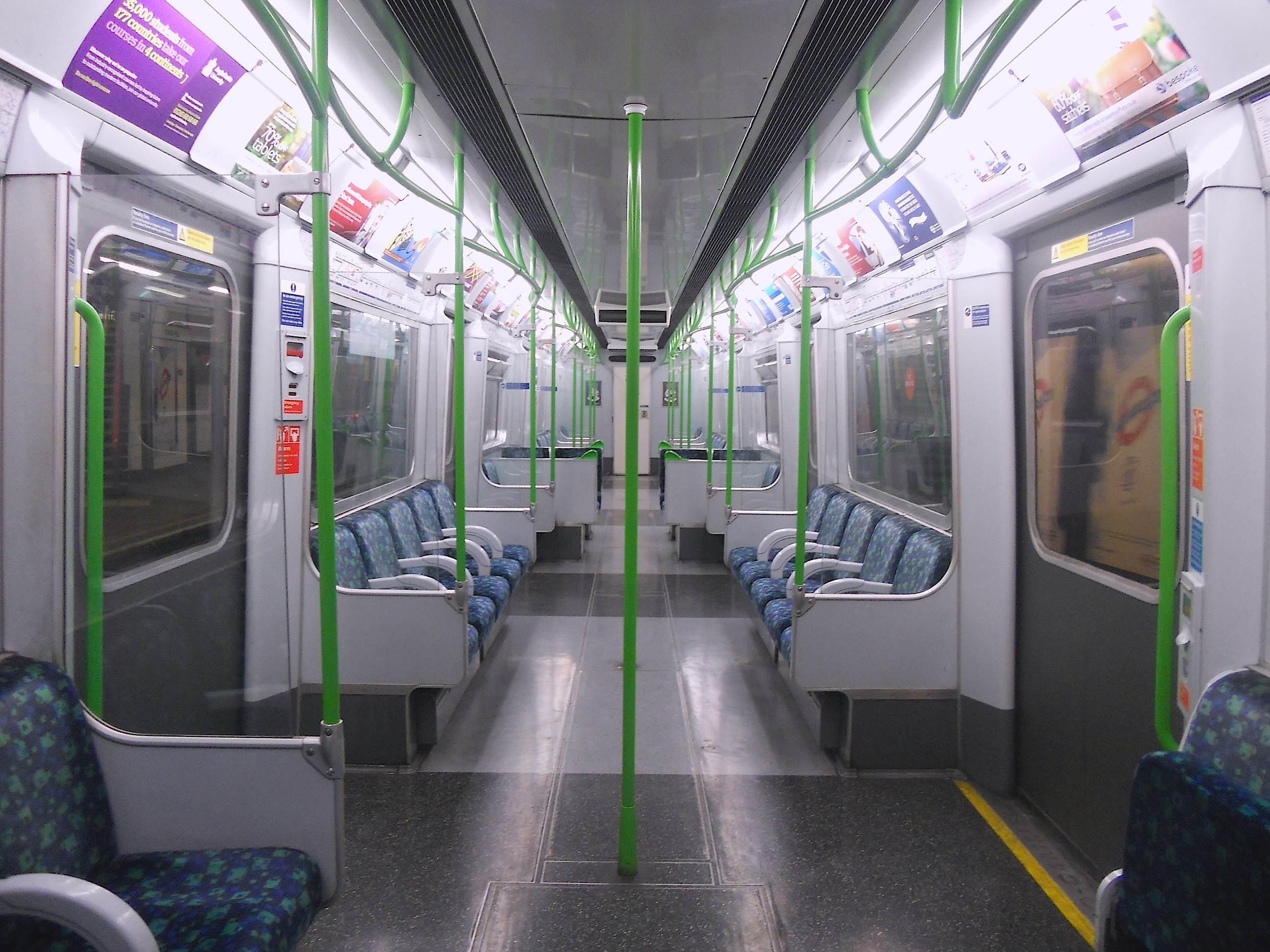 The interior of a London Underground District line refurbished D78 Surface Stock train